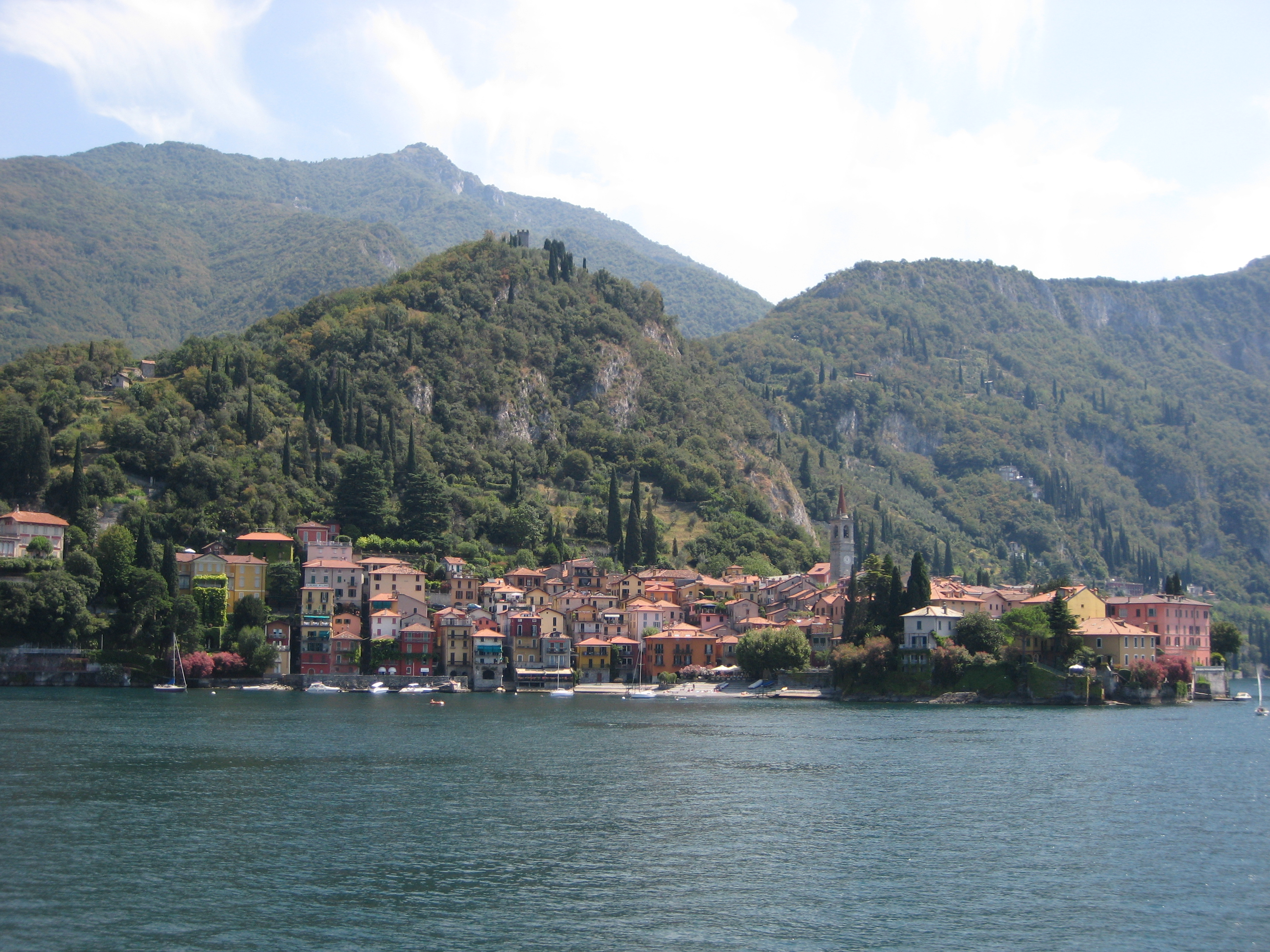 Varenna at the Lake Como